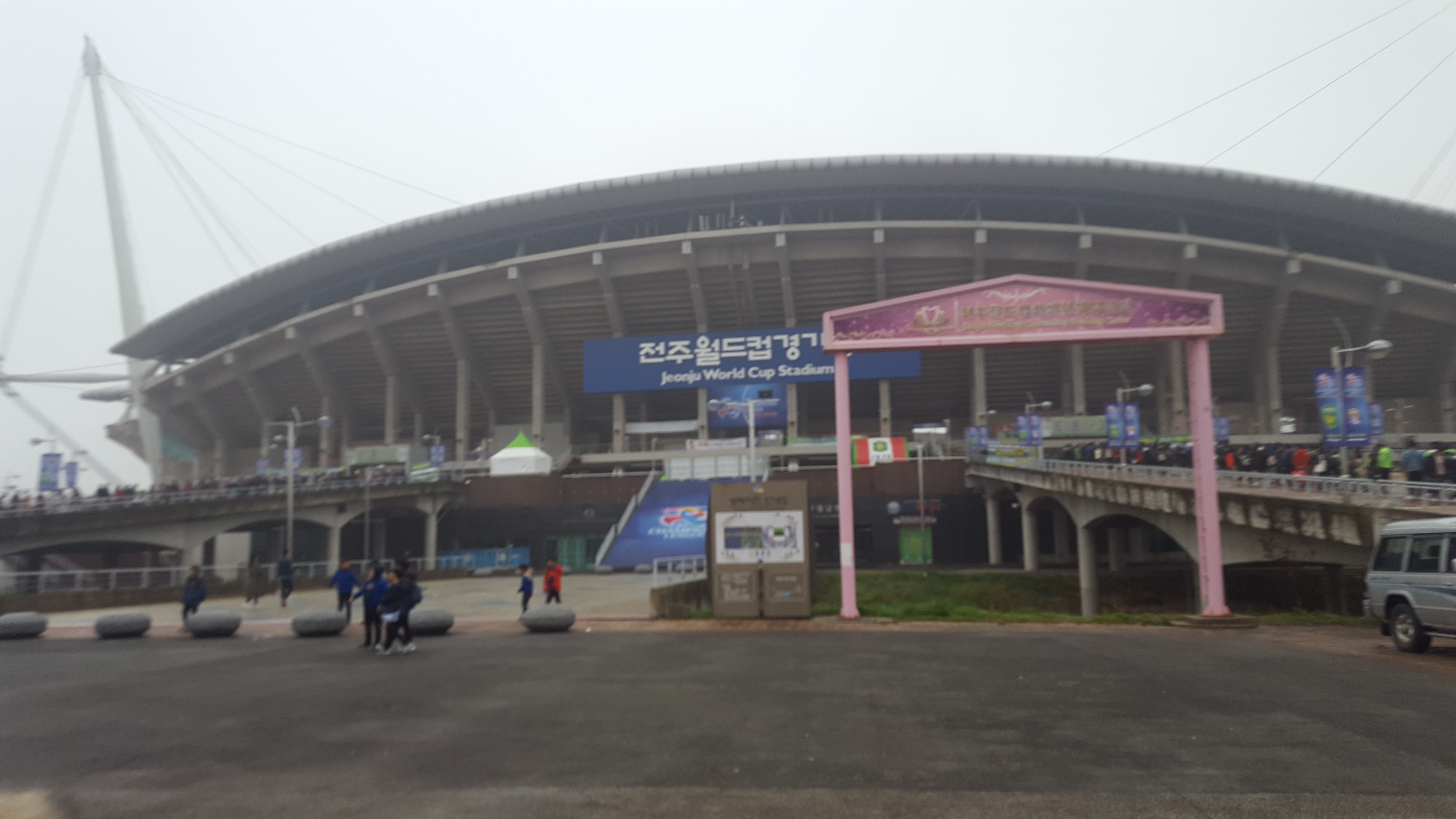 Jeonju Worldcup Stadium